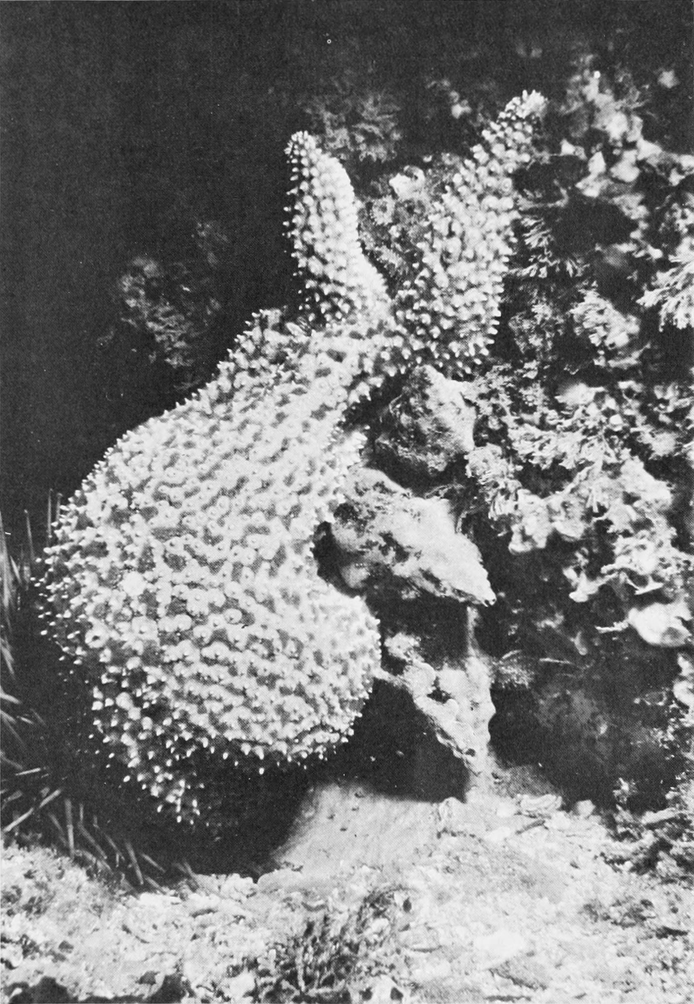 Convergent feeding behavior between Pisaster giganteus and Kelletia kelletii 21 m underwater off Point La Jolla, Calif. The sea star is eating a Chama pellucida while three whelks are attempting to get to the prey.